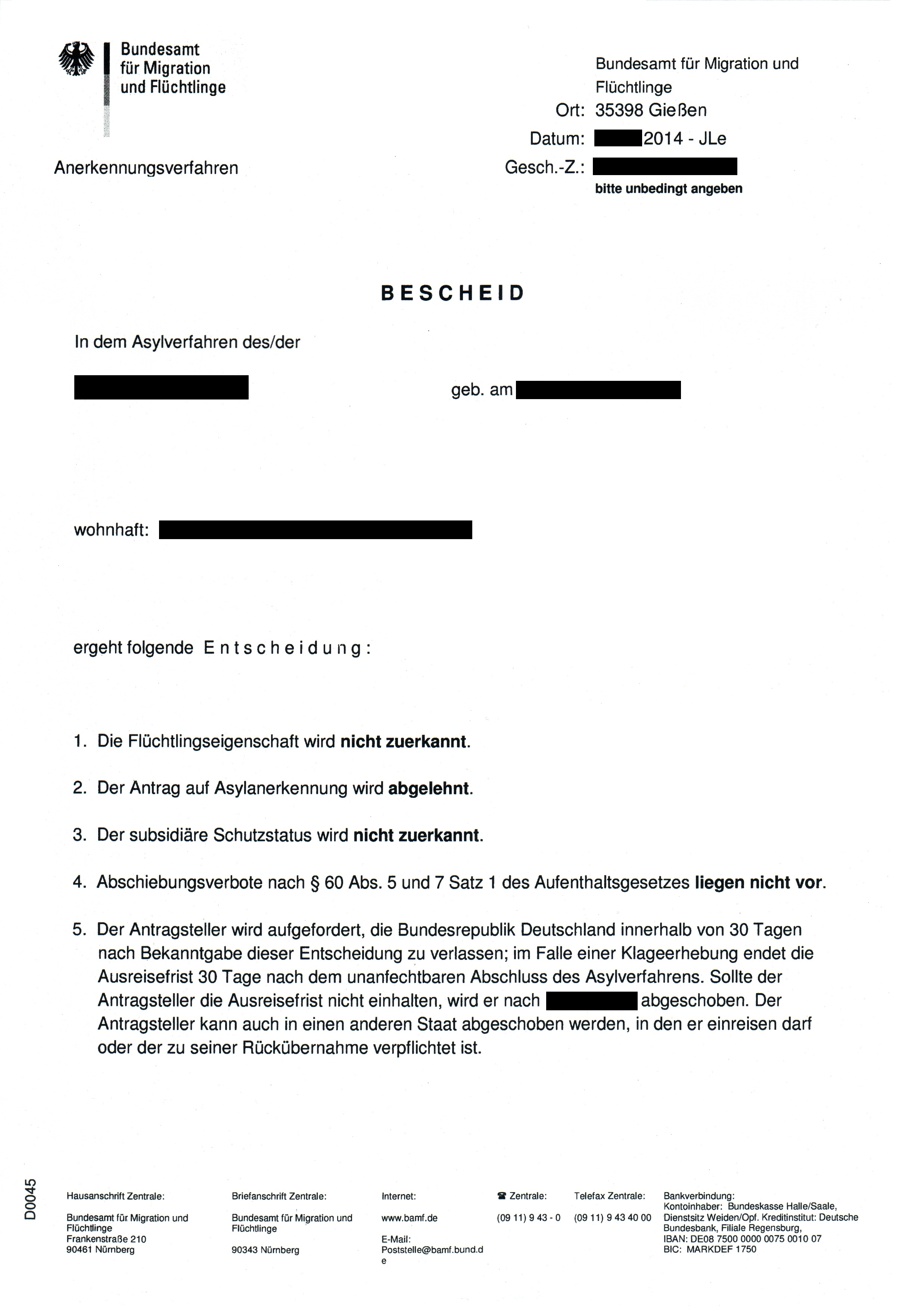 Negative decision by the Federal Office for Migration and Refugees (“Bundesamt für Migration und Flüchtlinge”, BAMF, Germany) against an asylum seeker. Personal information removed.